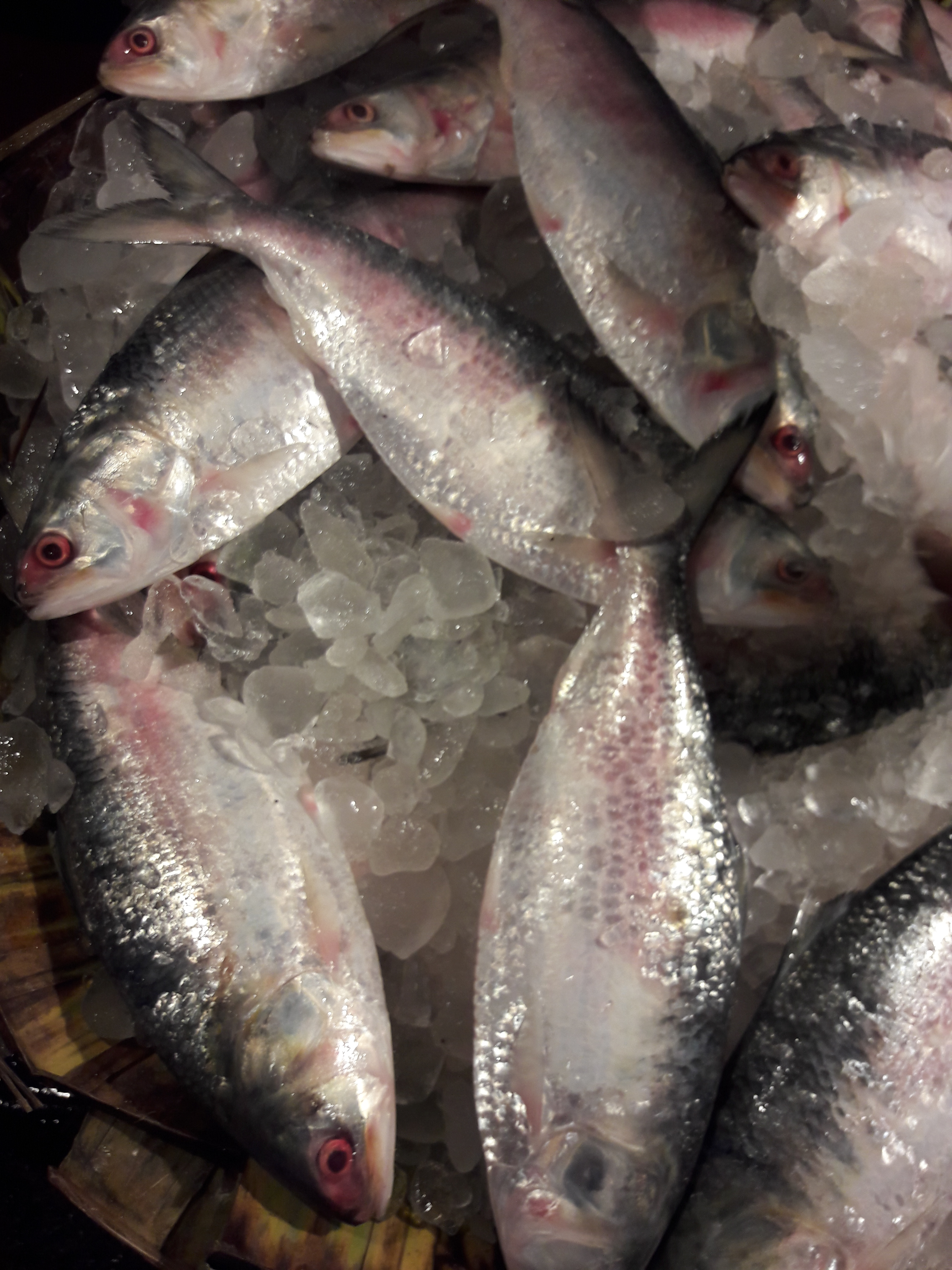 Fish of Bangladesh